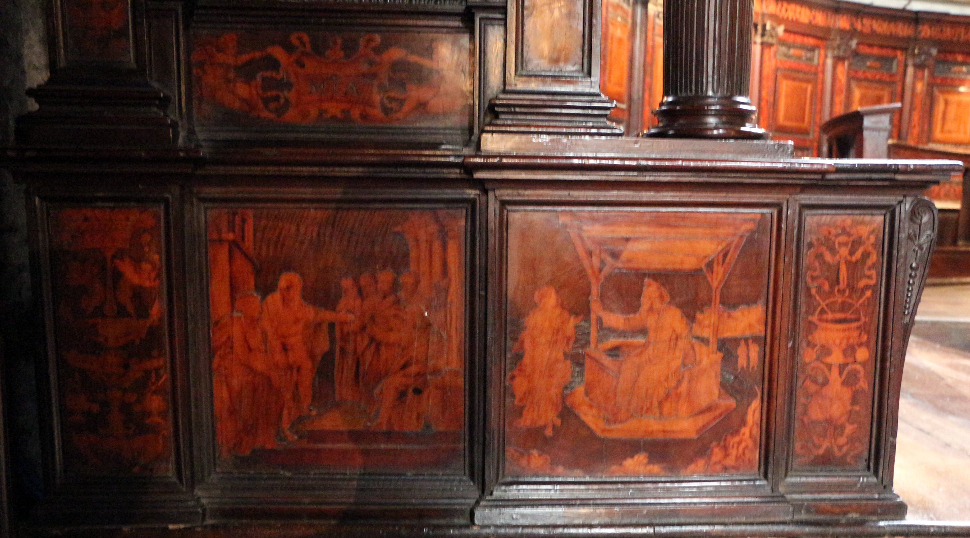 Santa Maria Maggiore (Bergamo)